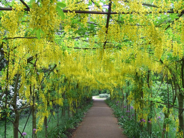 The John Beer Laburnum Walk — in Pembroke Lodge Gardens. The laburnum (Laburnum × watereri) walk is at its blooming peak in early May.